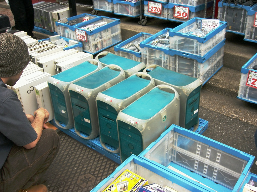 Power MacintoshG3・Personal Computer JunkShop Akihabara Tokyo Japan.